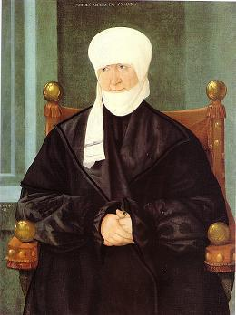 Portrait of a Lady at the age of fifty-seven